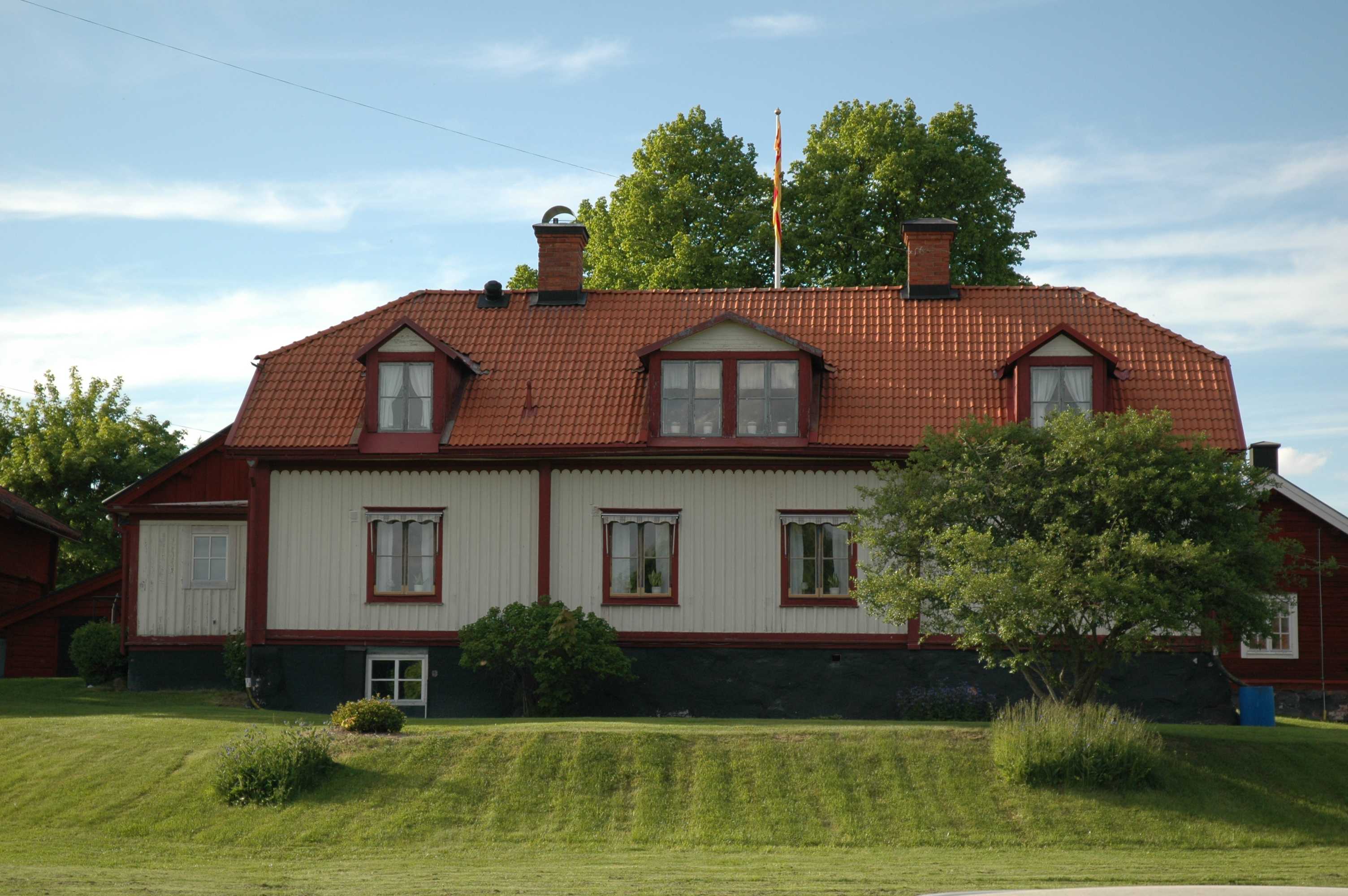 Pictures from the "Bergslagssafari" that Swedish Wikipedia performed between 4th and 6th of June 2010.